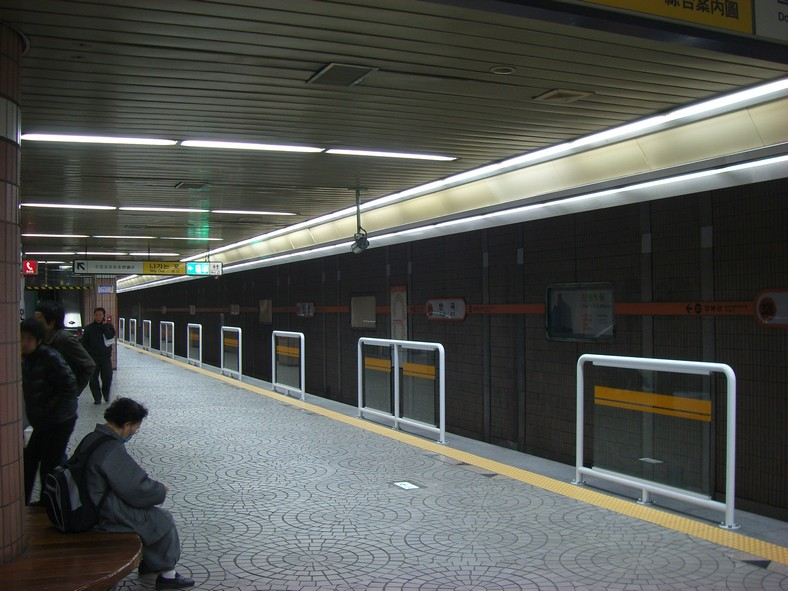 Anguk Station